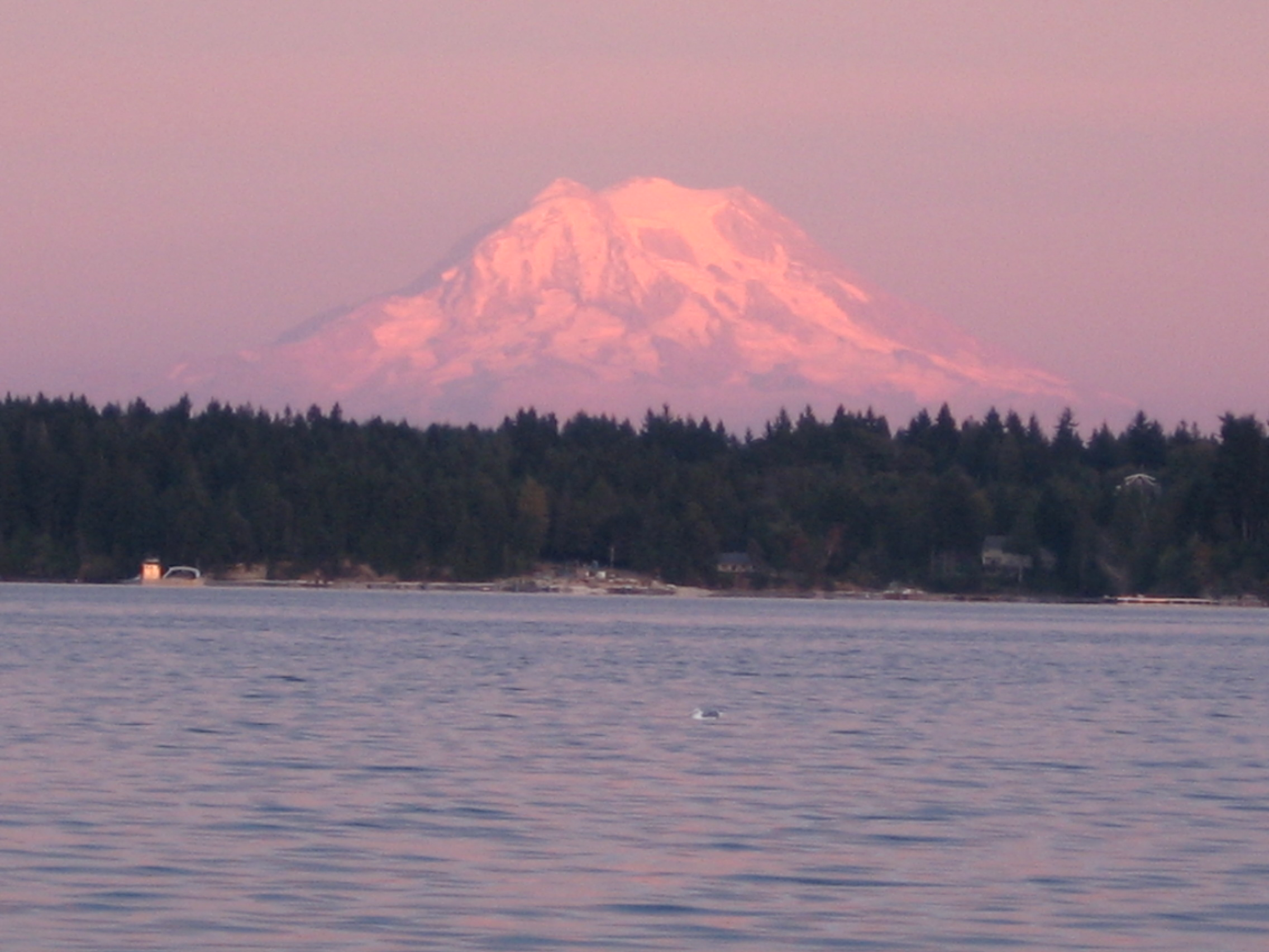 Mount Rainier looms over the still waters of Totten Inlet. Mason County, Washington.